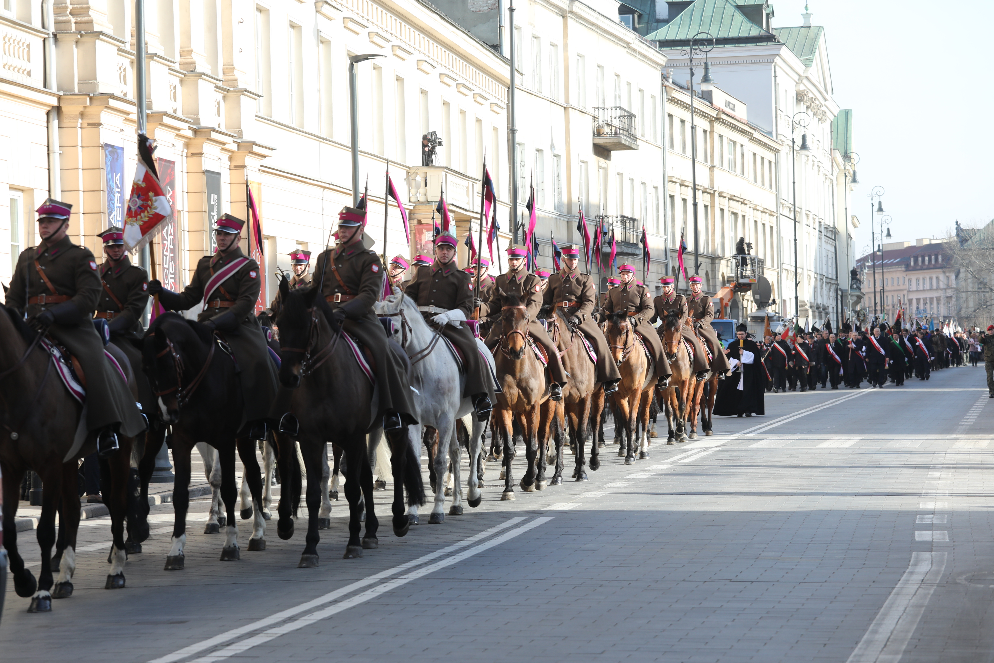 The last way is late Jan Olszewski. Funeral ceremonies of the former Prime Minister of the Republic of Poland with the participation of, among others Speaker of the Sejm and parliamentarians.